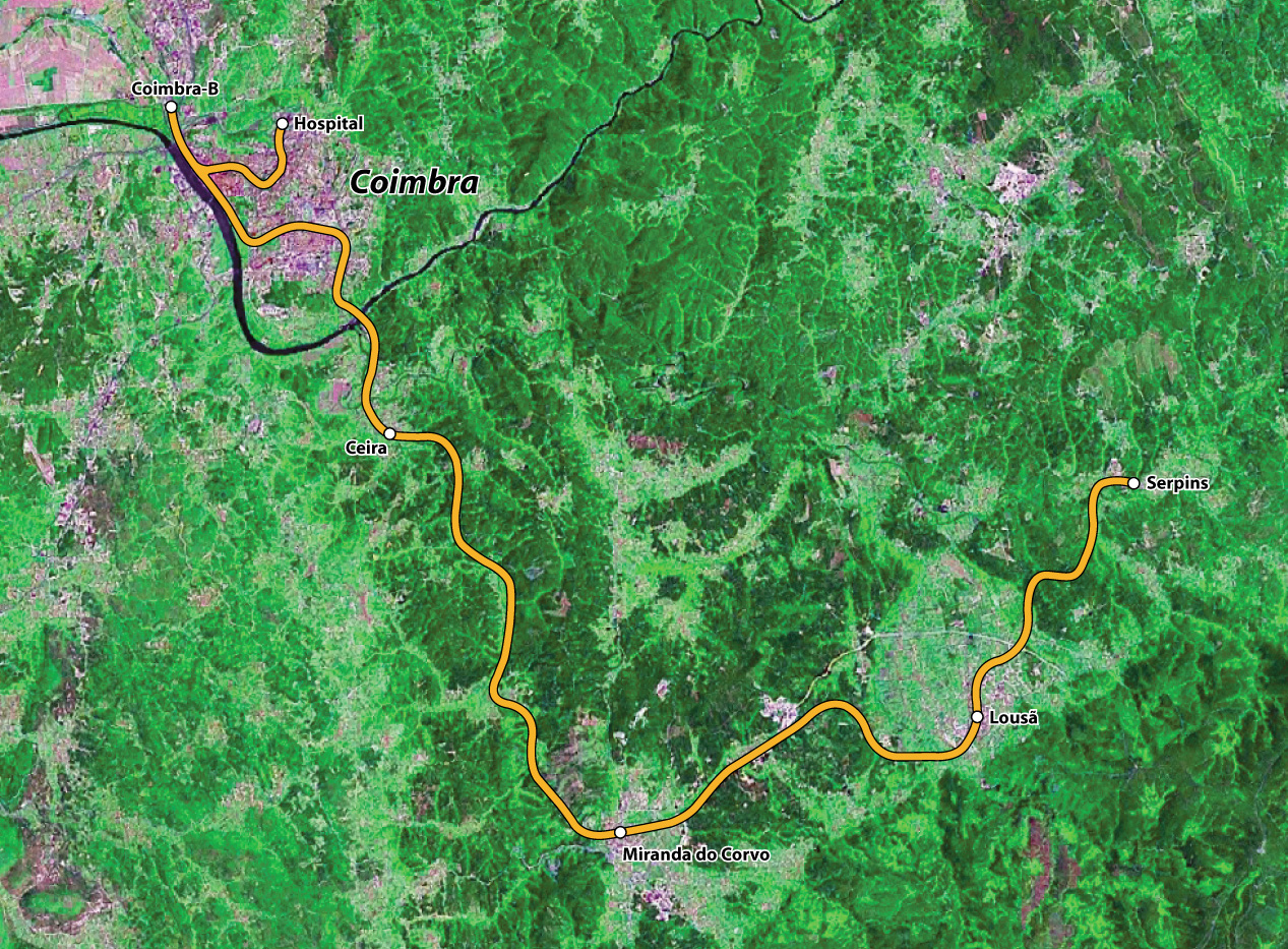 Metro Mondego Route Arrangement